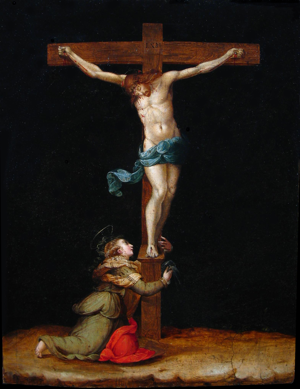 Crucifixion with Magdalena